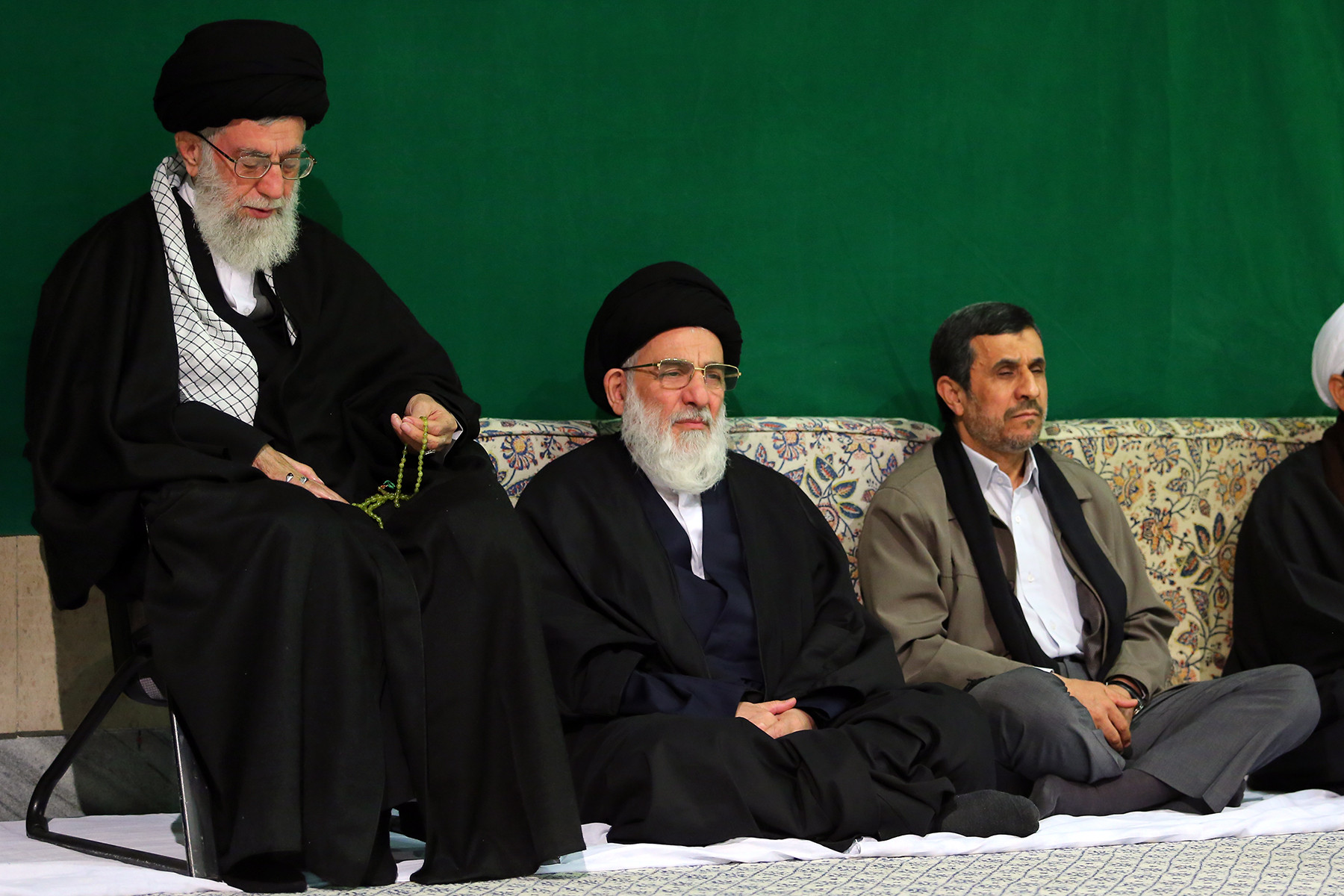 First Night of Fatimiyah Mourning Days in Imam Khomeini Husainiyah (13930111 1226039) from right to left: Mahmoud Ahmadinejad, Mahmoud Hashemi Shahroudi and Ali Khamenei